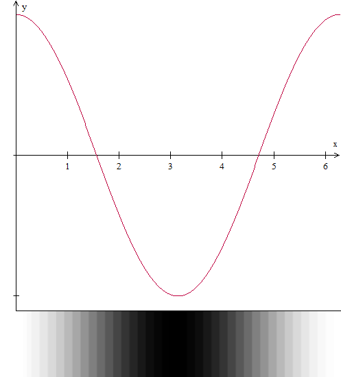 Example of a cosine function.